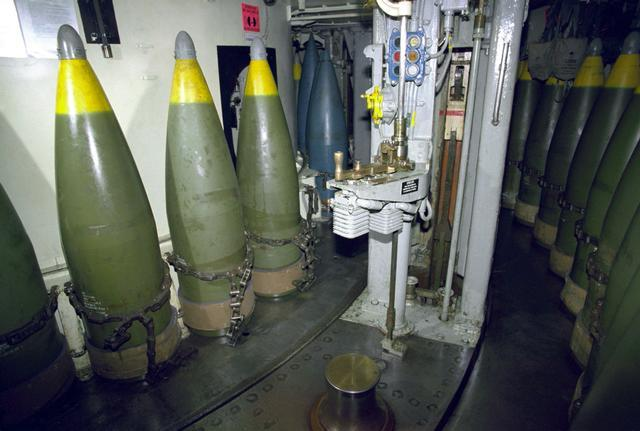 Battleship Ammunition: View of several 1,900-pound high capacity (HC) projectiles in a handling room beneath one of the turrets of an Iowa-class battleship. The blue projectiles in the background are 2,700-pound dummy projectiles.